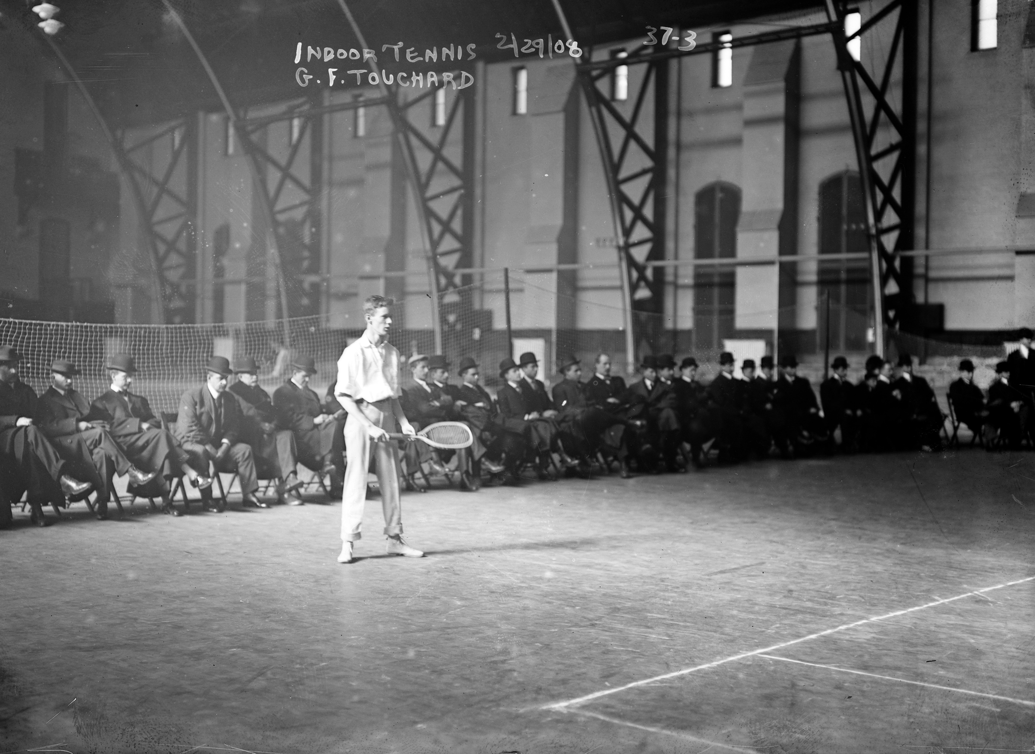 American tennis player Gustave F. Touchard at the 1908 U.S. National Indoor Tennis Championships played in the Seventh Regiment Armory in New York City. Orig. title:Indoor tennis, [7th regiment armory], G.F. Touchard